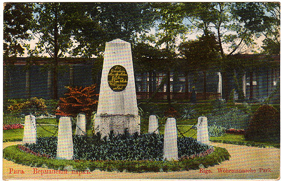 Vermanes Garden Riga, Latvia (at the time a part of the Russian Empire)